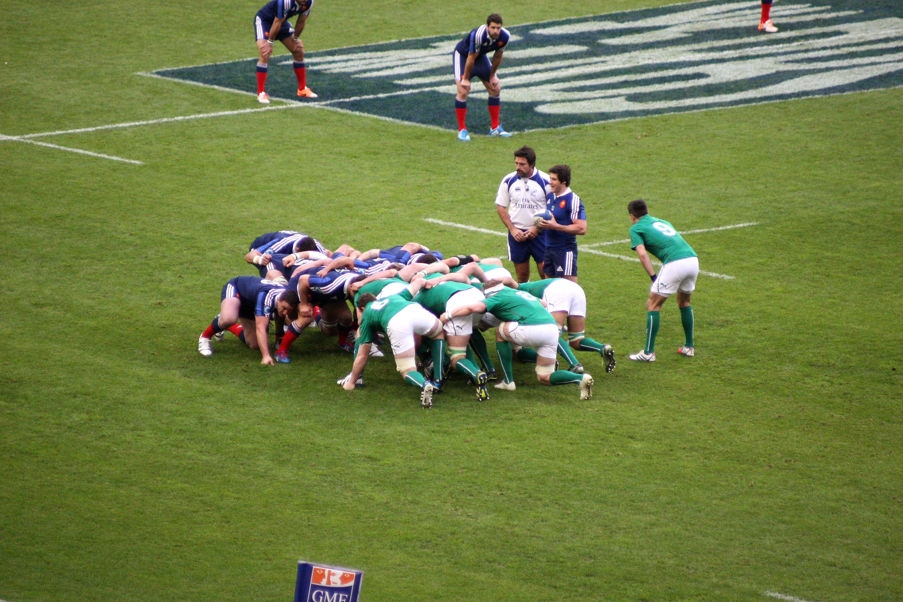 2014 Six Nations Championship, France vs Ireland.